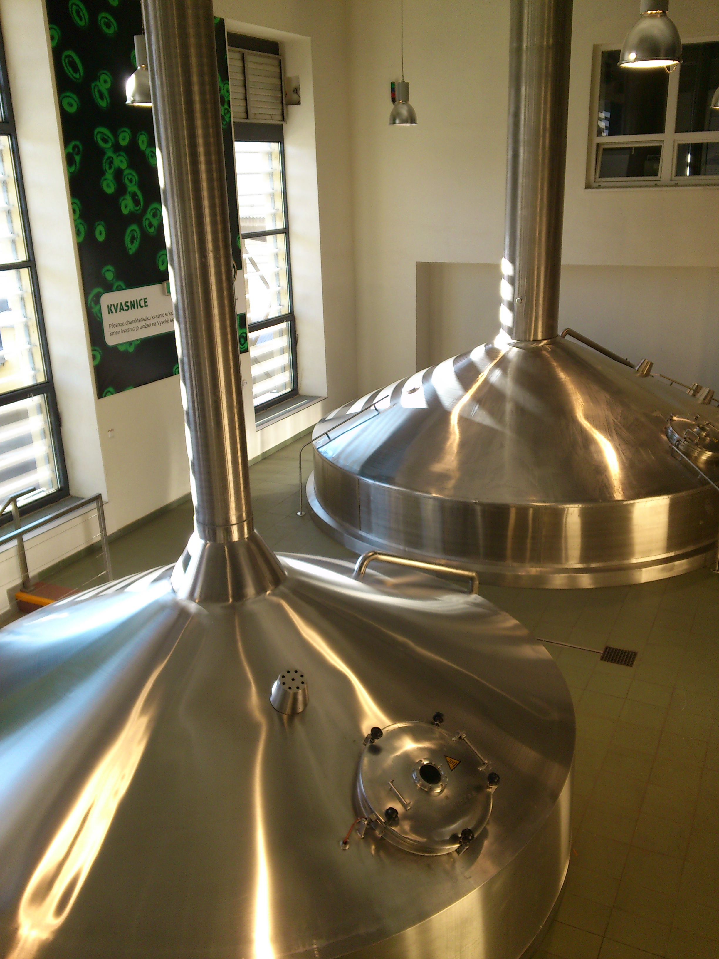 Starobrno Brewery from inside